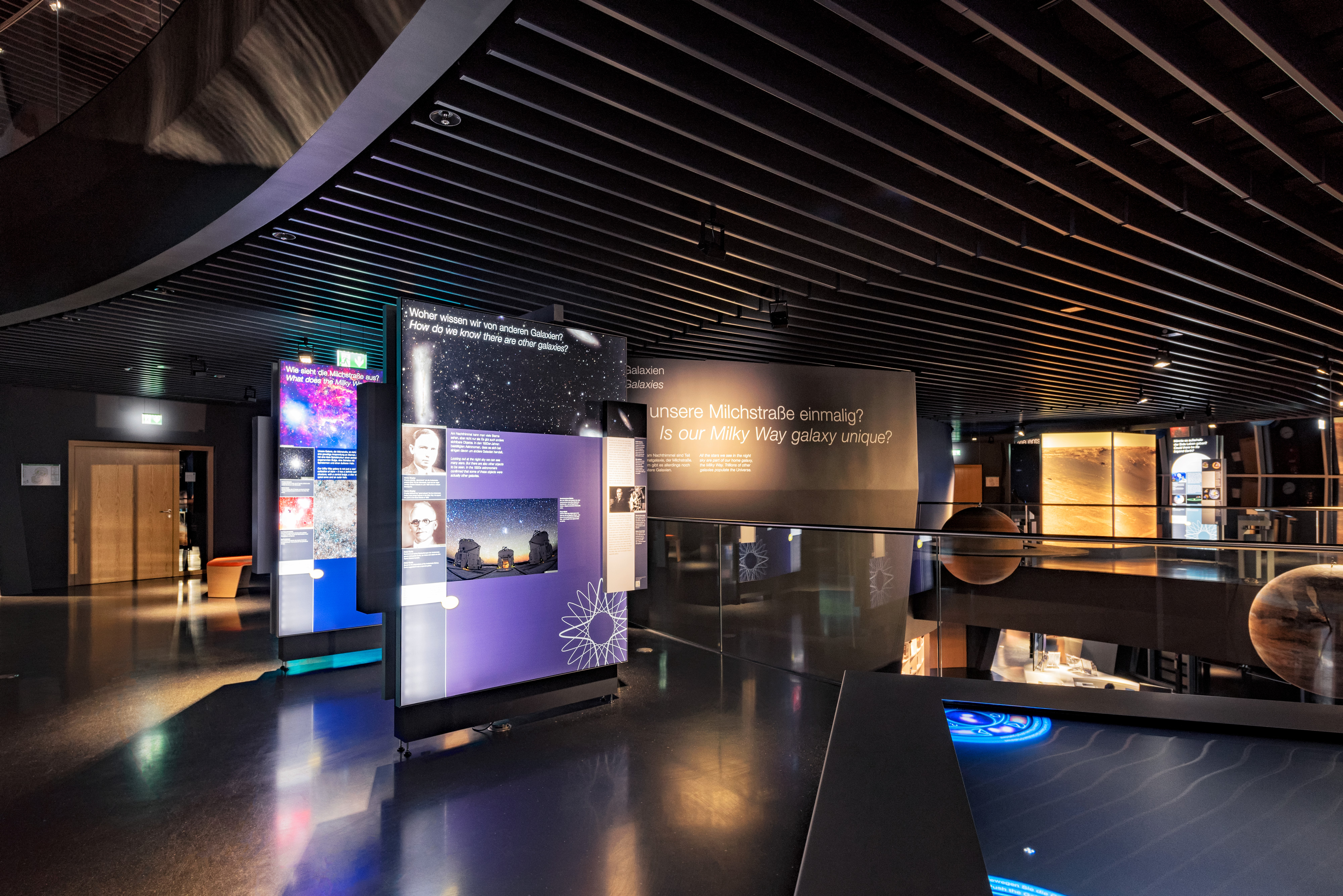 The exhibition in the ESO Supernova Planetarium & Visitor Centre covers 2200 m^2 and aims to answer the most intriguing astronomical questions. Included in the exhibition are 104 app kiosks, 147 panels and 92 huge wall and floor prints. All material produced for the visitor centre is released under Creative Commons and can be reused by other planetariums, science centres and museums all over the world.